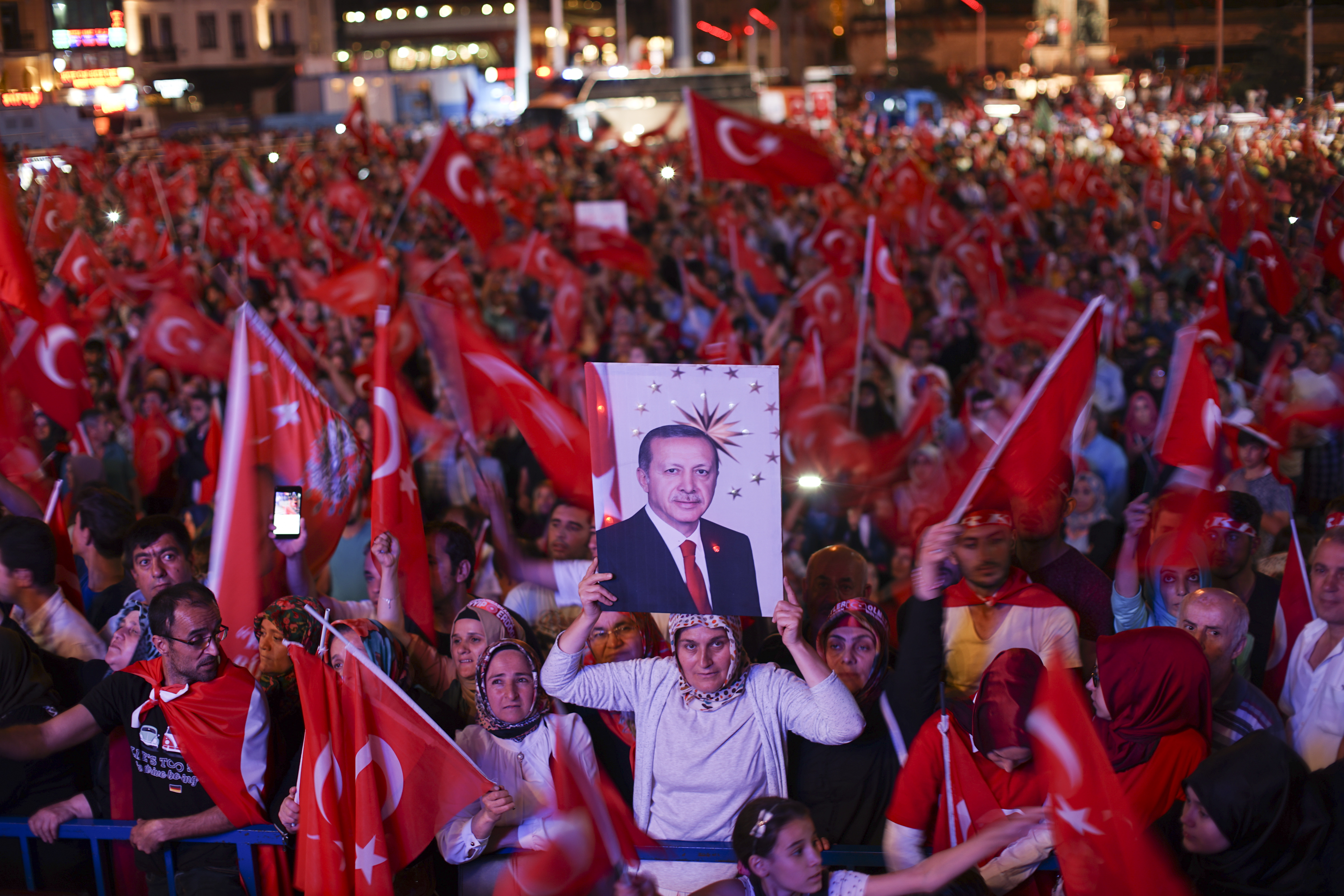 After coup nightly demonstartion of president Erdogan supporters. Istanbul, Turkey, Eastern Europe and Western Asia. 22 July,2016